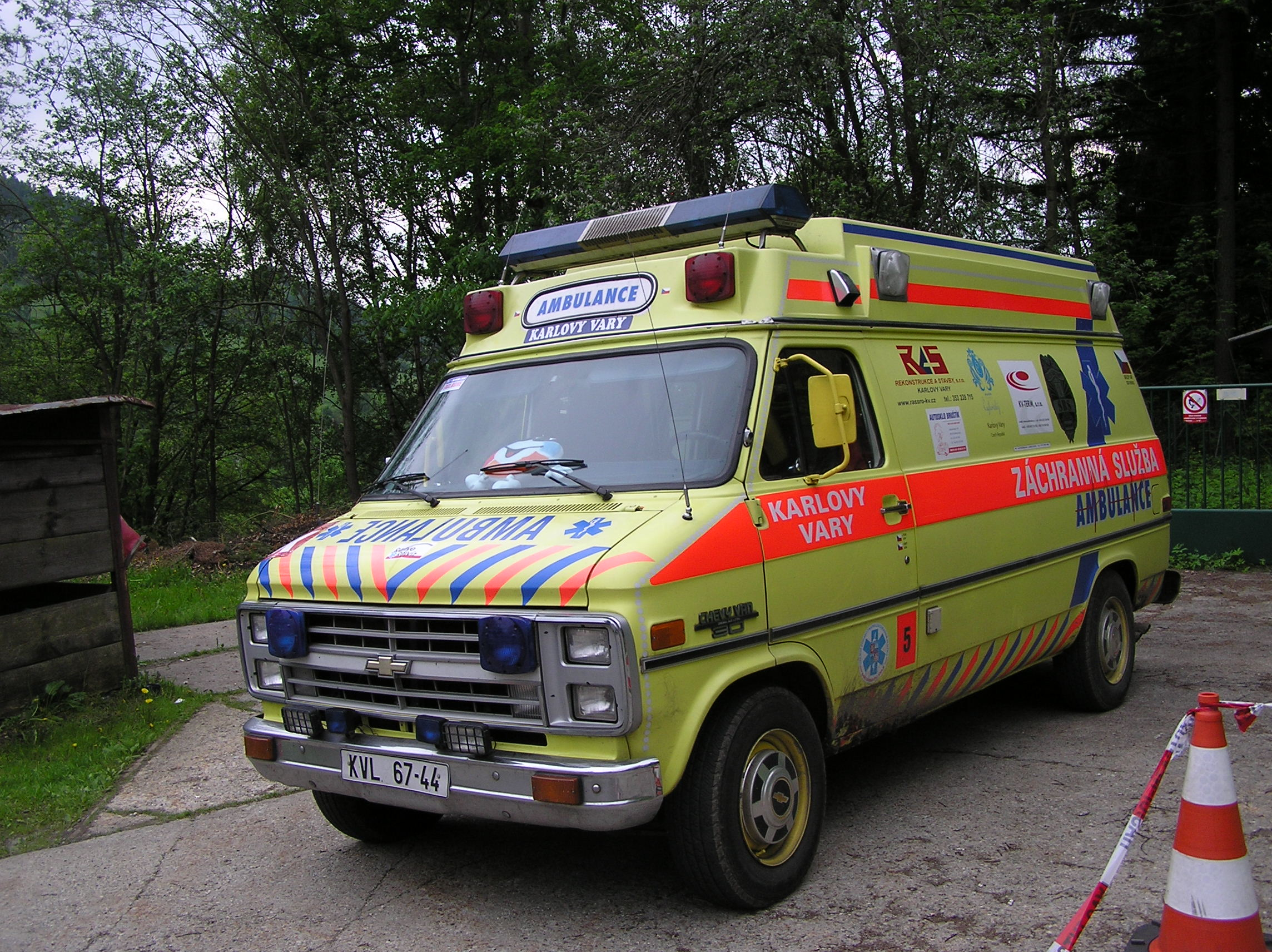 Chevrolet ambulance vehicle of the Emergency Medical Service of Karlovy Vary Region; photo was taken during the international competition Rallye Rejvíz in Kouty nad Desnou, Czech Republic